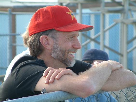 John Luther Adams watching a baseball game.